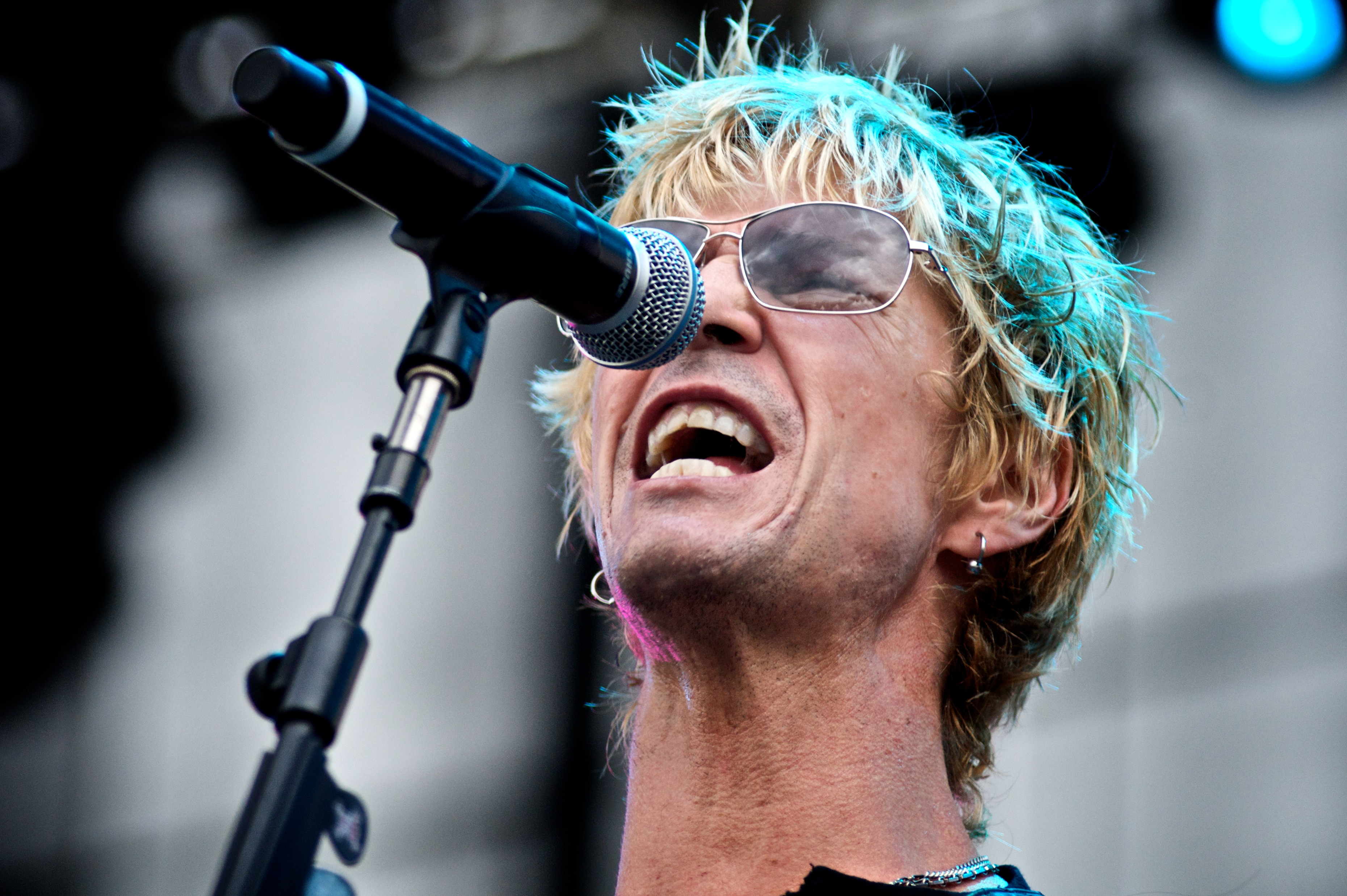 Duff Mckagan Loaded in Maquinária Festival, occurred in November 8 2009 at São Paulo, Brazil.